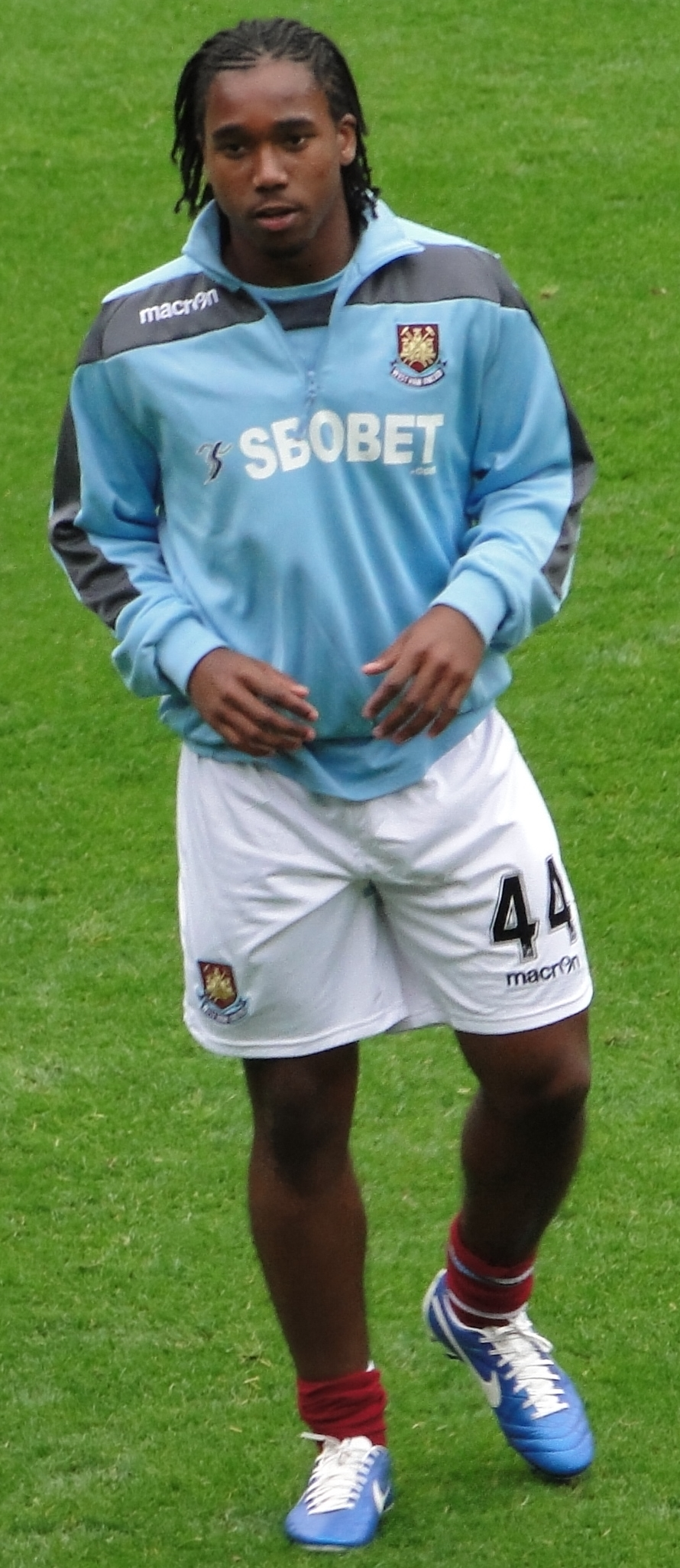 West Ham United footballer Leo Chambers warming-up before their game against Southampton at The Boleyn Ground, London